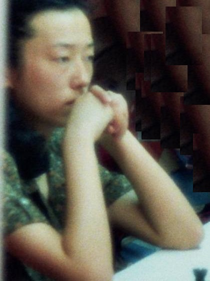 Qin Kanying, Wang Pin, Xie Jun, Chess Olympiad 1992, Photographer Gerhard Hund.